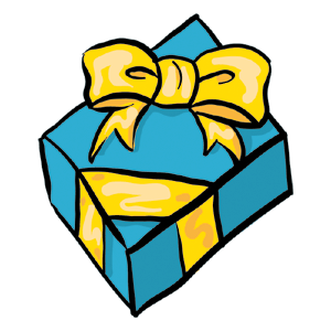 picture of a wrapped present